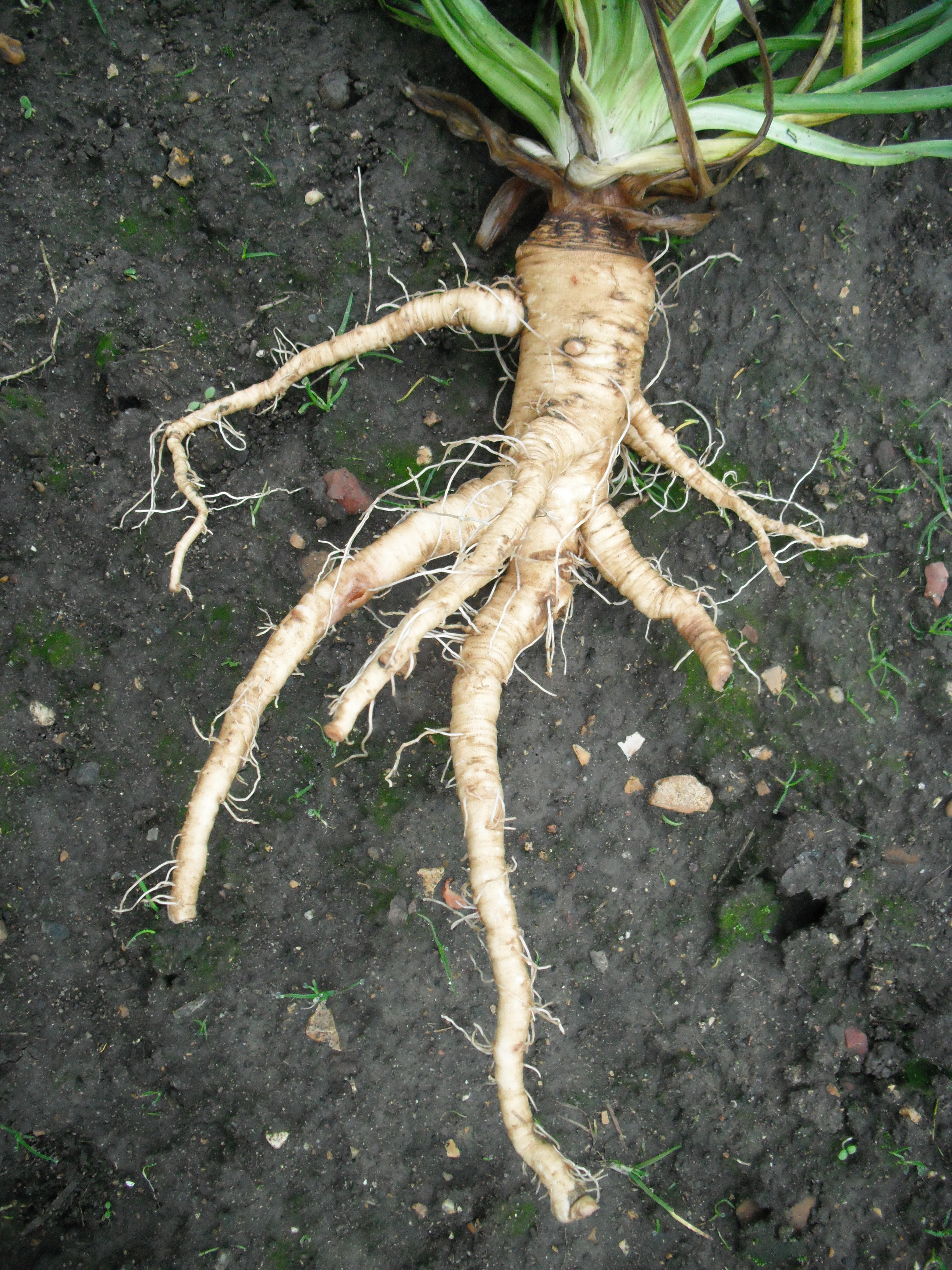 The root of a salsify plant (Tragopogon porrifolius), variety "Mammoth Sandwich Island", dug up and washed.